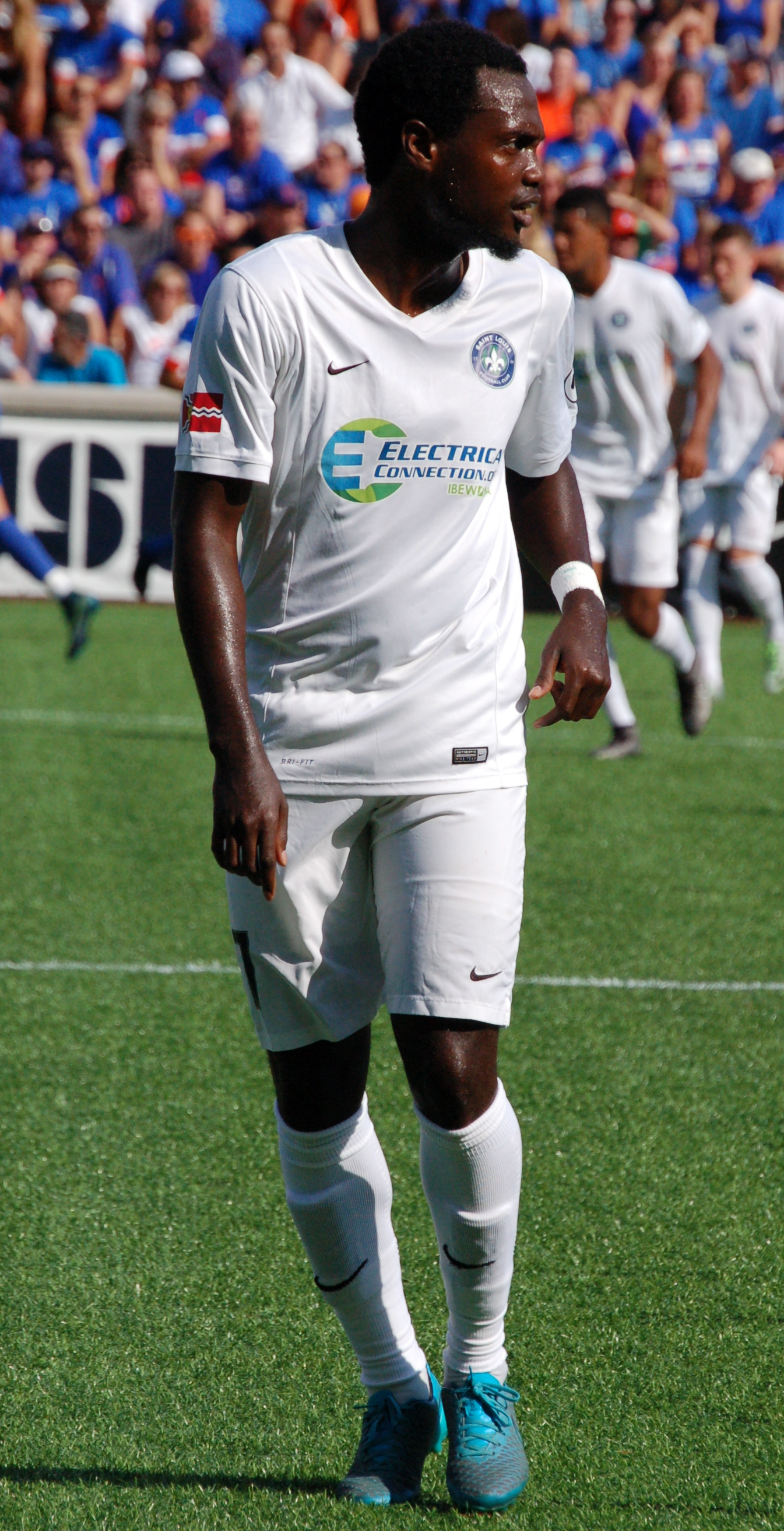 Jamiel Hardware Taken during a USL regular season match between FC Cincinnati and Saint Louis FC at Nippert Stadium in Cincinnati, USA on September 5, 2016.